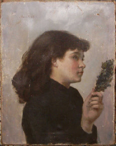 "Le Jour Des Rameaux" or "Palm Sunday", a painting by Victorine-Louise Meurent. The only known surviving example of her work, this painting hangs in the Municipal Museum of Art and History, in Colombes.